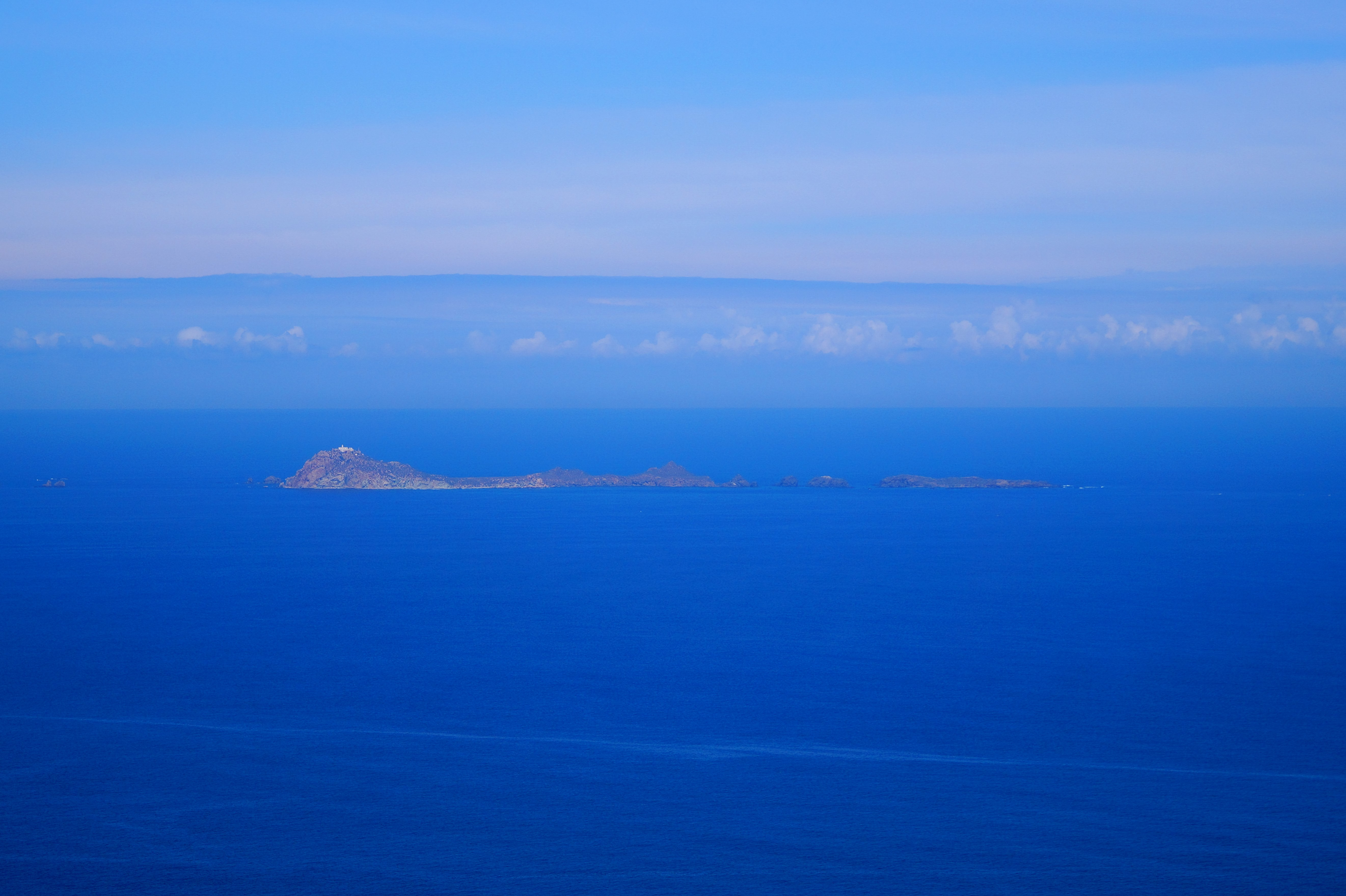 Habibas island photography